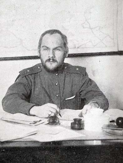 Photo of Chief of Staff Krylenko. 1918 year.